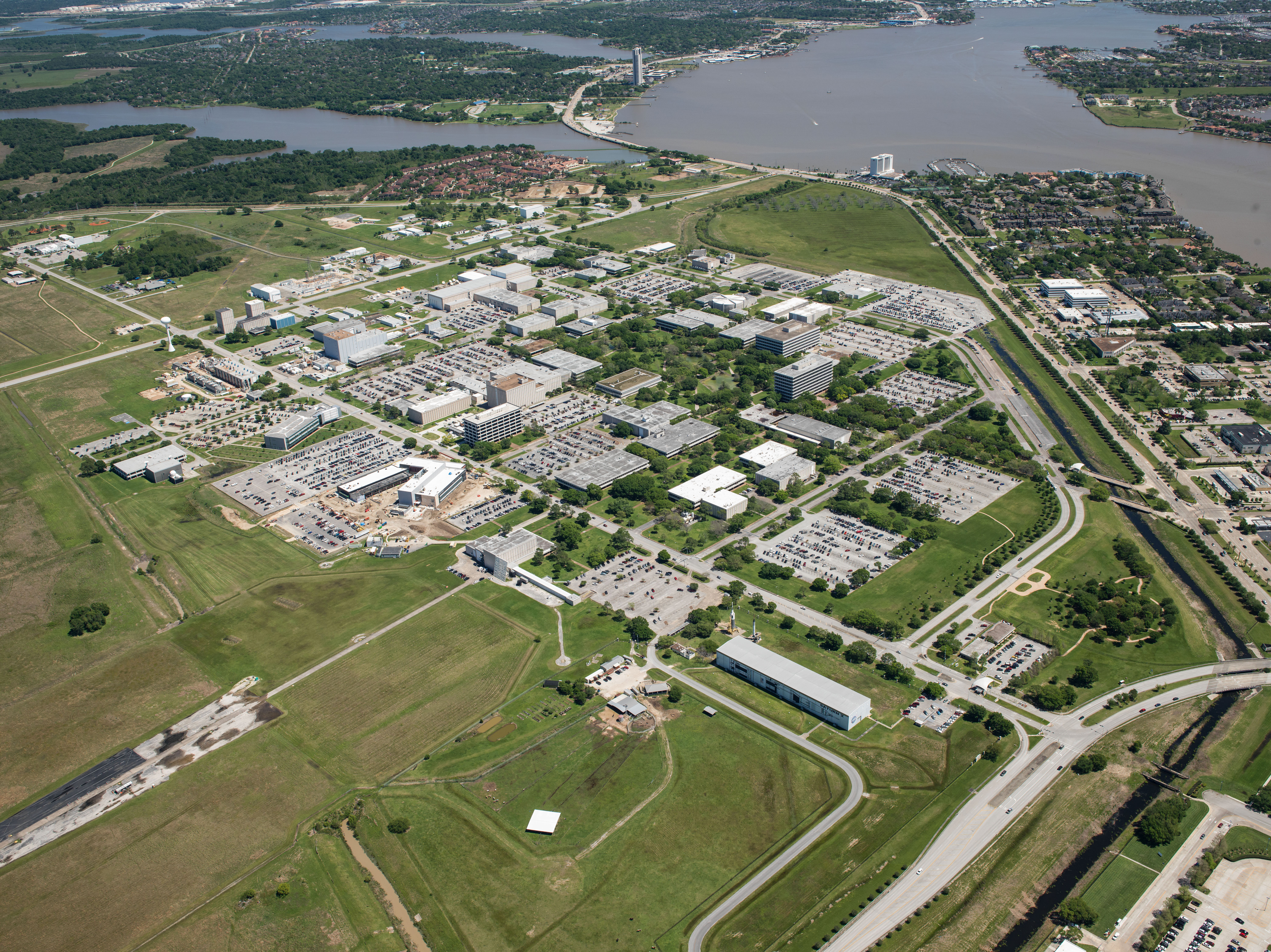 Aerial photograph of Johnson Space Center facilities taken from a U.S. Coast Guard H-65 helicopter.